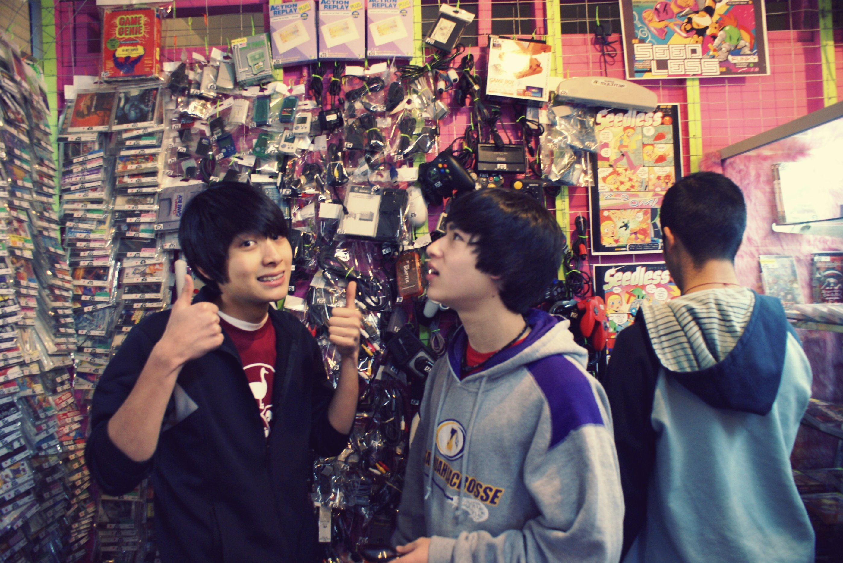 At the Pink Gorilla! Or was it purple?